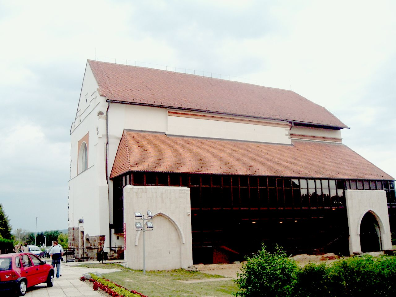 The Theatre in Szentgotthárd